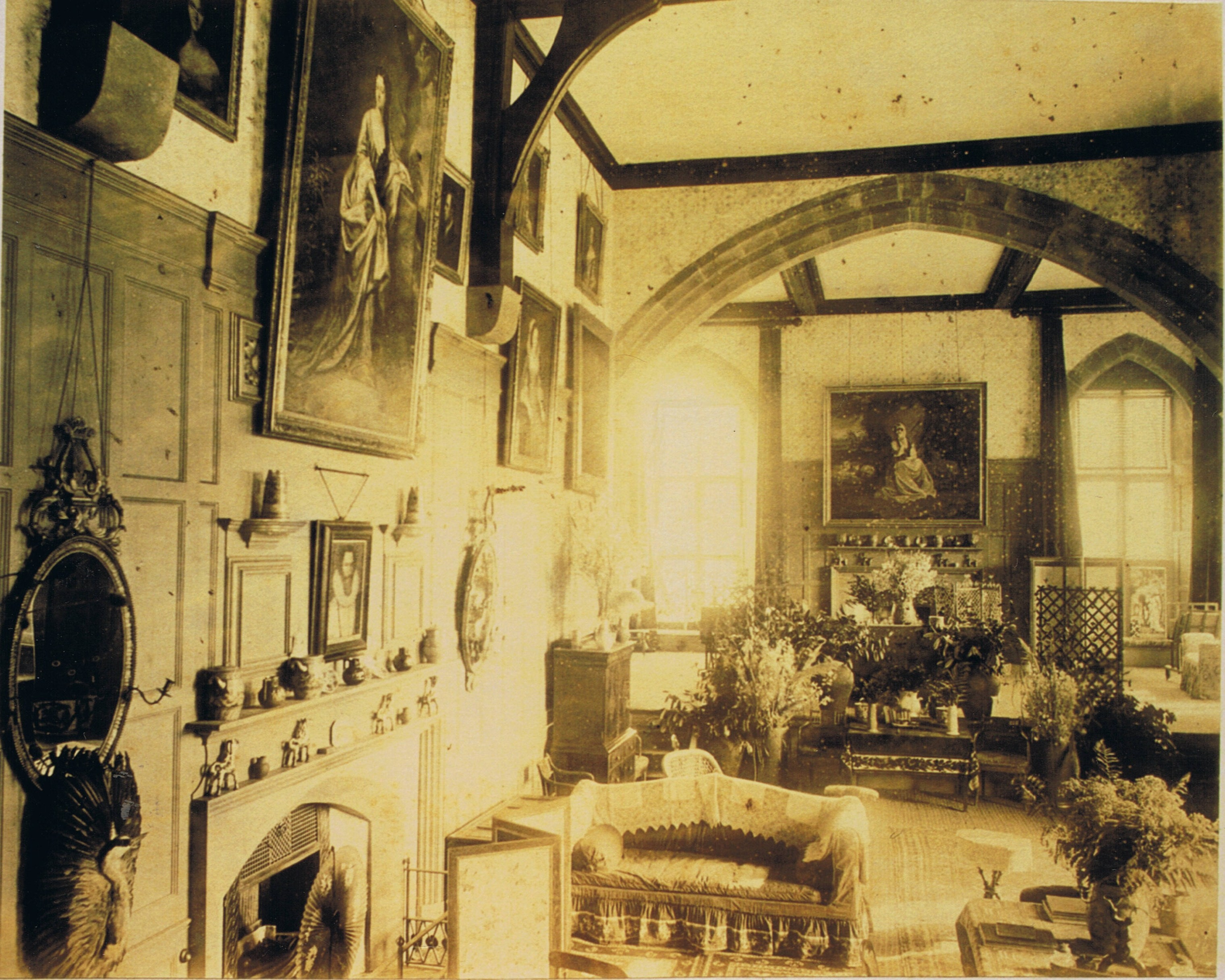 scan of a photo (R. de Salis, Oct. 2009) of a c1870 photo of Loton, Shropshire. In an album put together by Emily & William Fane De Salis. William was an uncle of the Leightons of the day.Rodolph (talk) 23:24, 1 December 2009 (UTC)